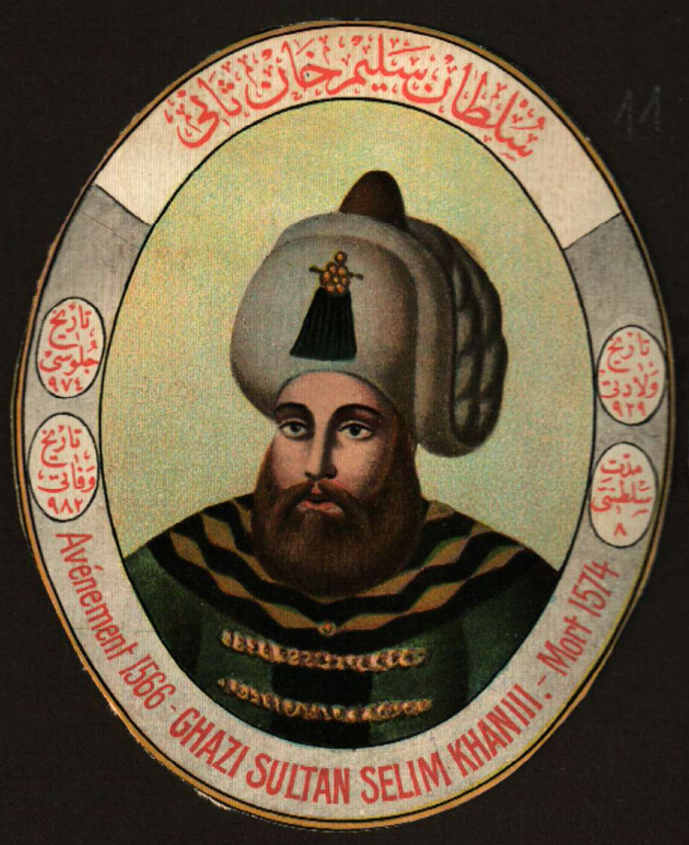 Selim II